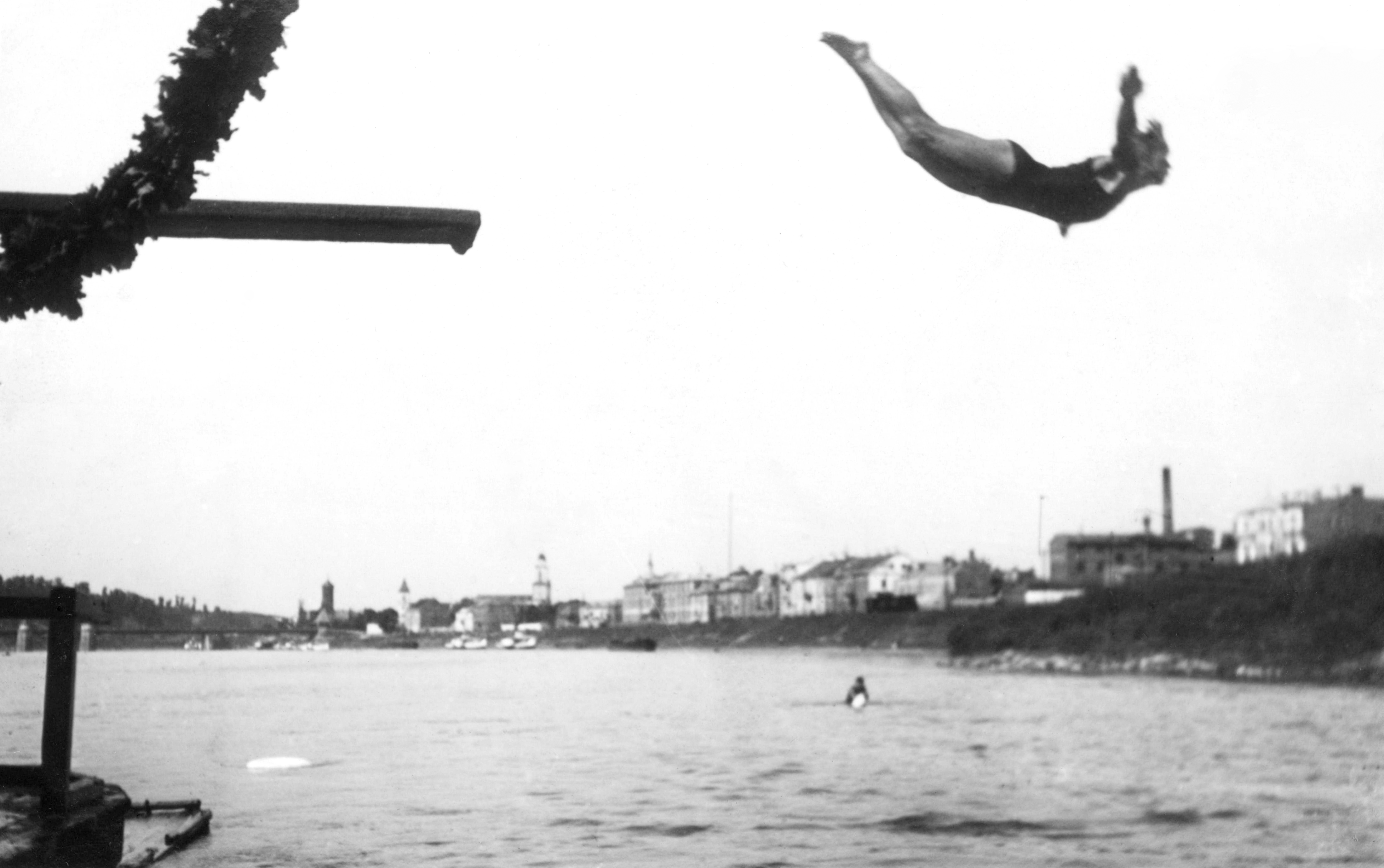 Lithuanian swimmer and diver jumping from 3 meter springboard. Open air pool in Nemunas river, Kaunas, Lithuania, 1935. Picture from personal archives of Valentinas Vaškelis.